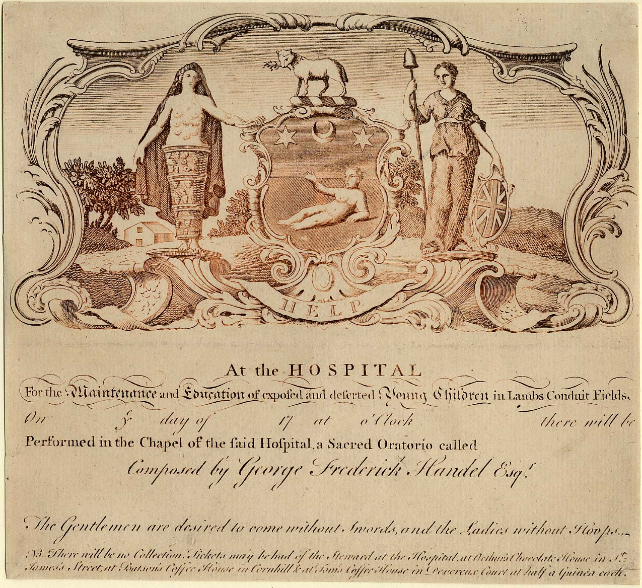 Coat-of-arms with a naked child, a lamb holding a sprig of thyme as the crest, figures of Diana of Ephesus and Britannia as supporters, and the motto "Help"; a landscape beyond, and a rococco frame; below, a ticket for a performance of "a sacred oratorio" by Handel to be performed at the Foundling Hospital. c.1750 Etching and engraving, printed in red